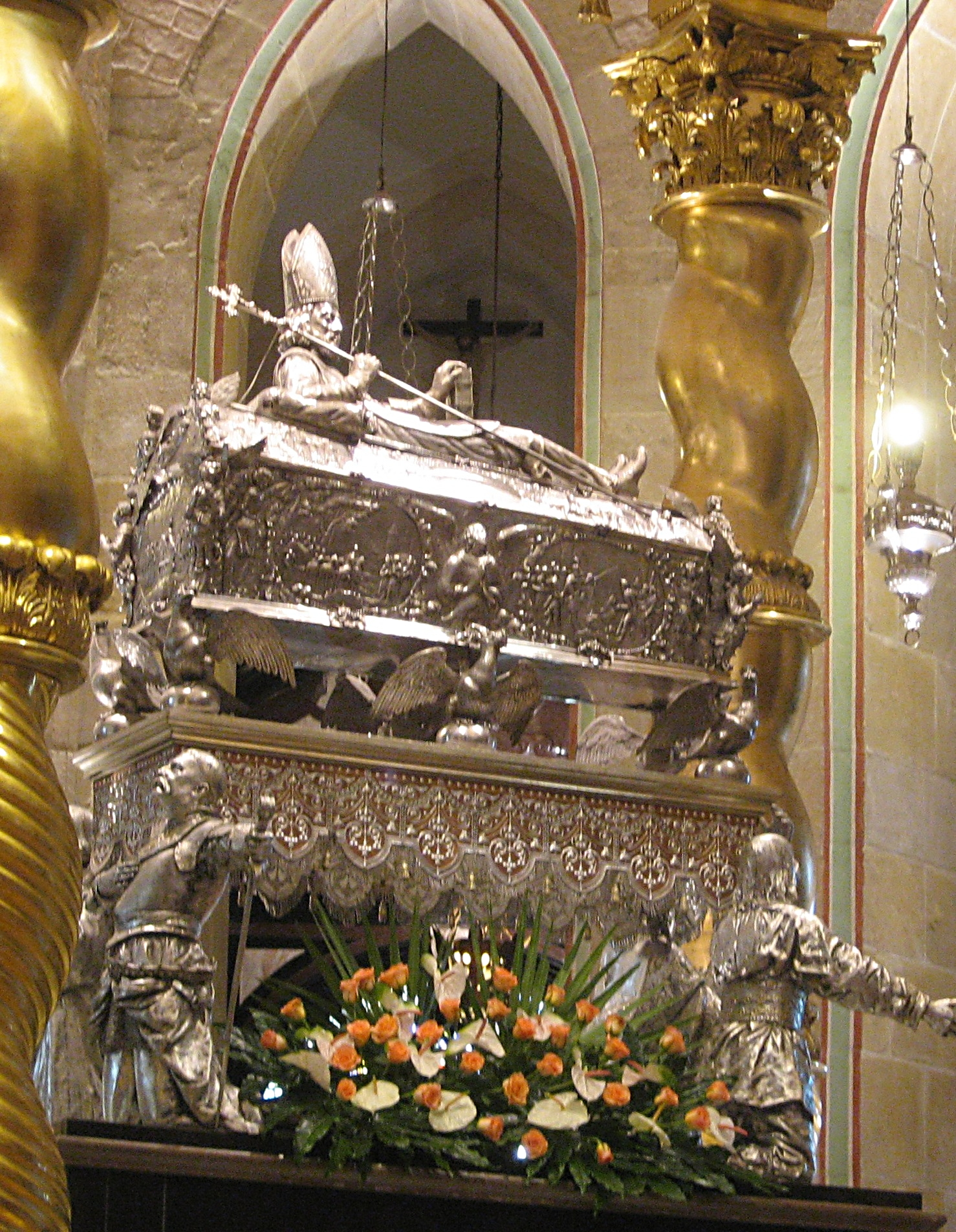 Silver coffin of St. Adalbert in Gniezno